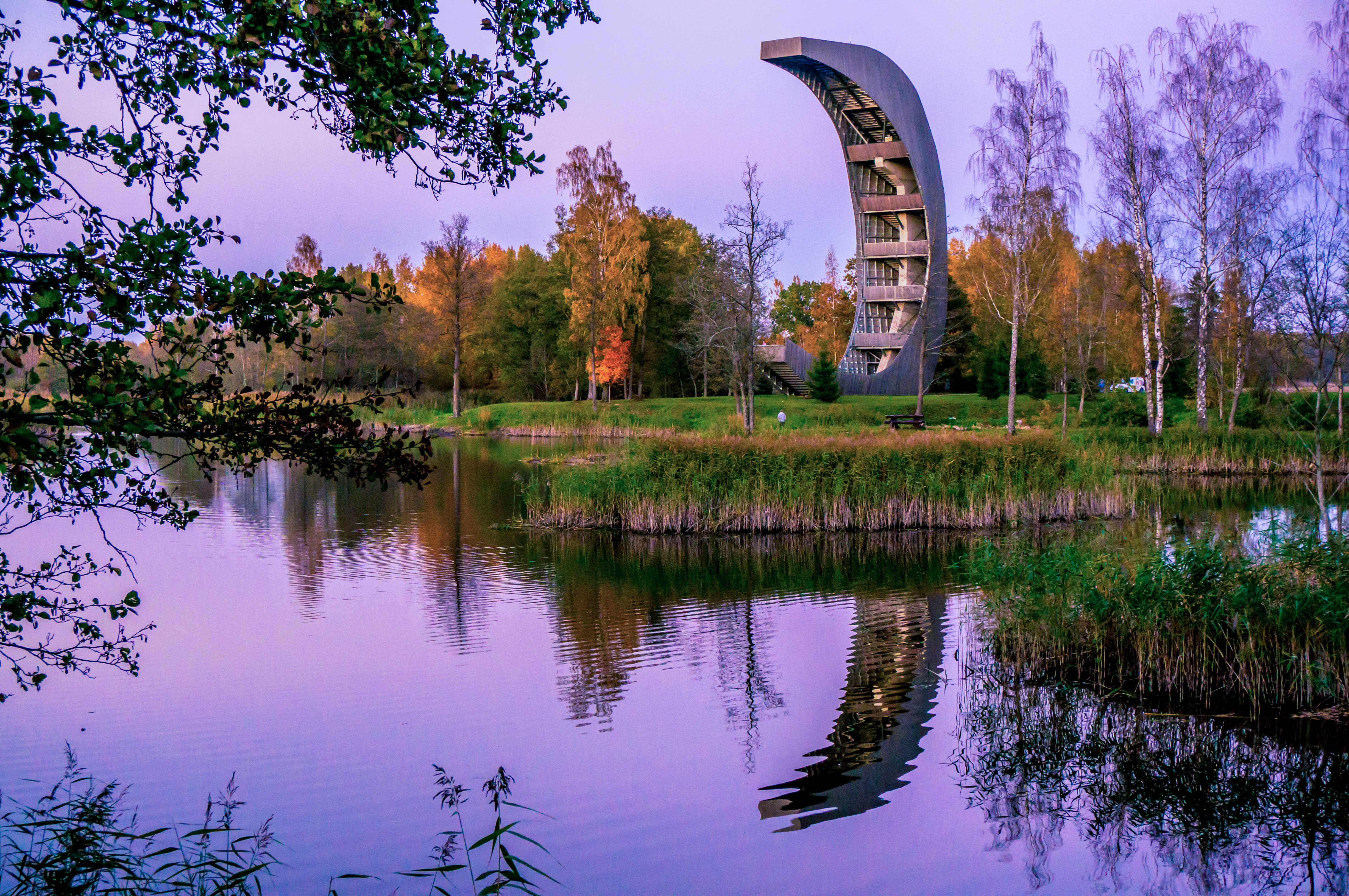 Kirkilai Tower near Birzai